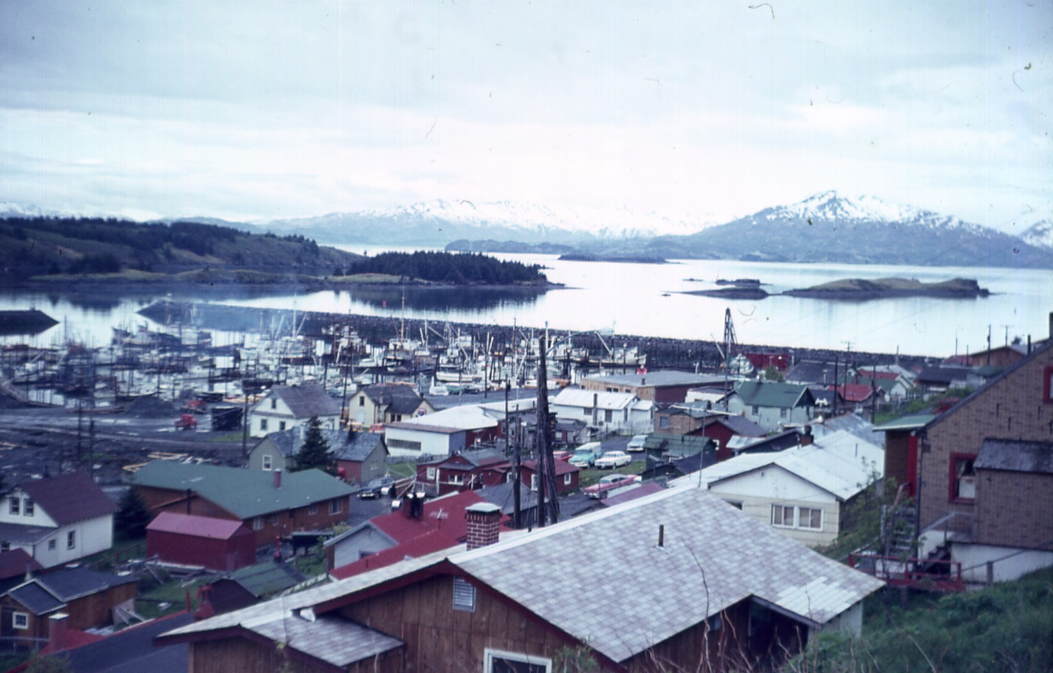 Kodiak was still showing the effects of the 1964 earthquake and flooding.